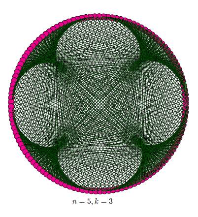 Undirected De Bruijn graph_for n=5, k=3